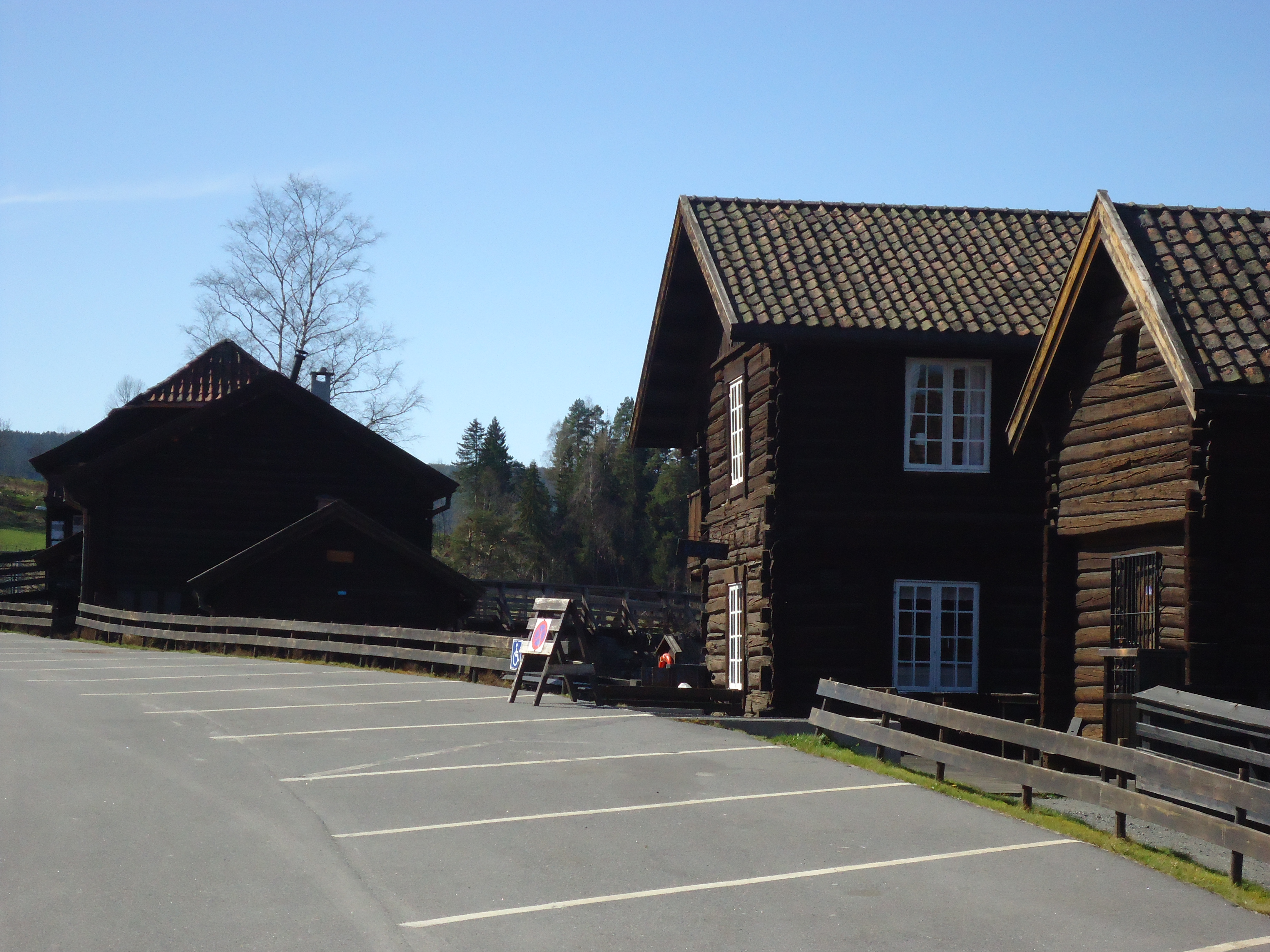 old buildings in Modum